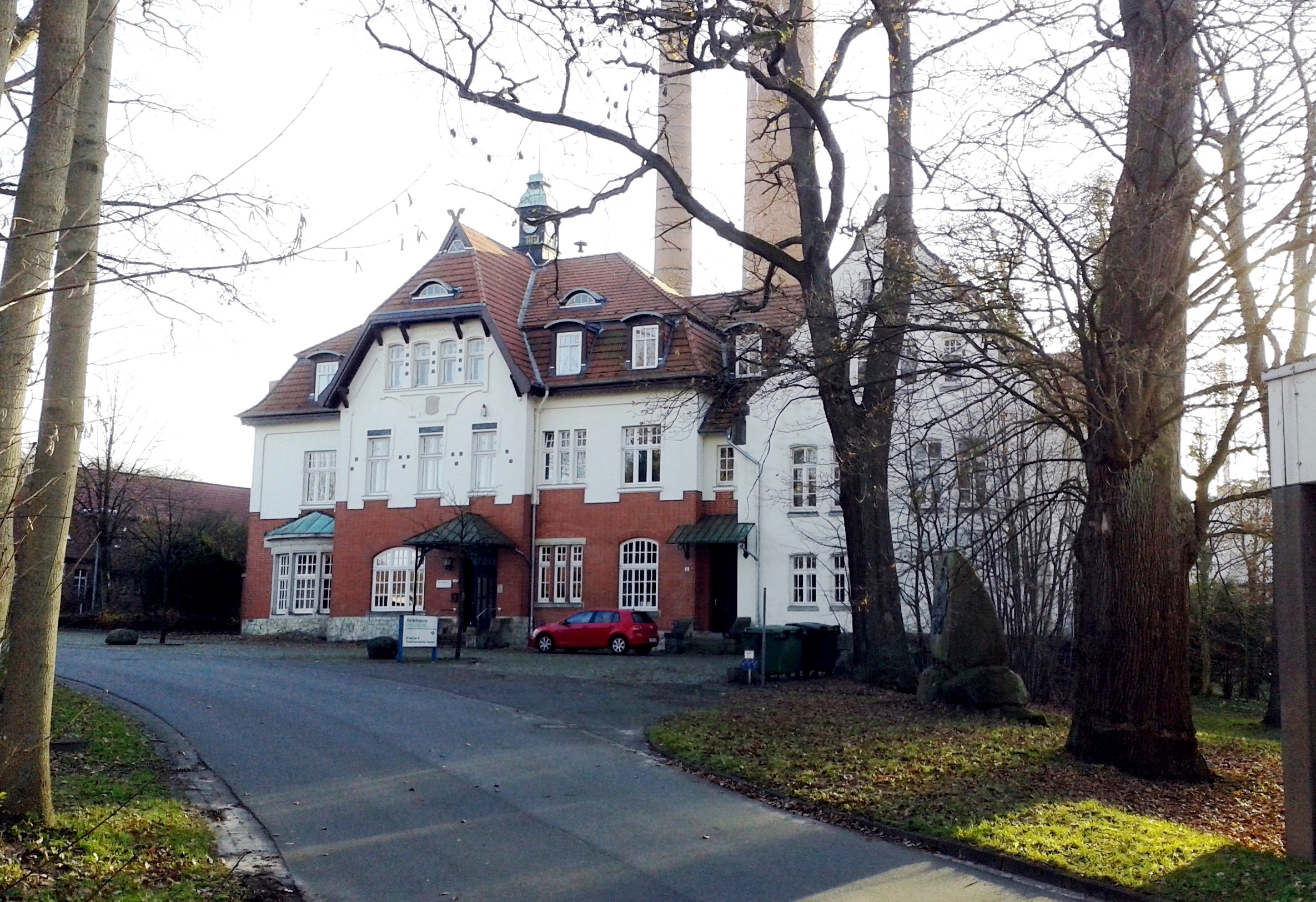 Bomlitz, Lower Saxony, Germany, ancient manor